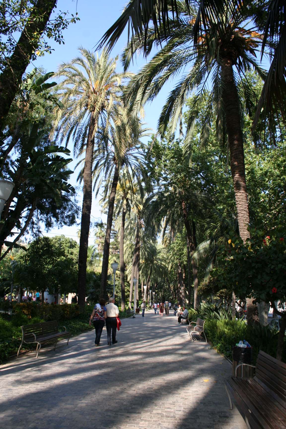 Málaga, Spain.